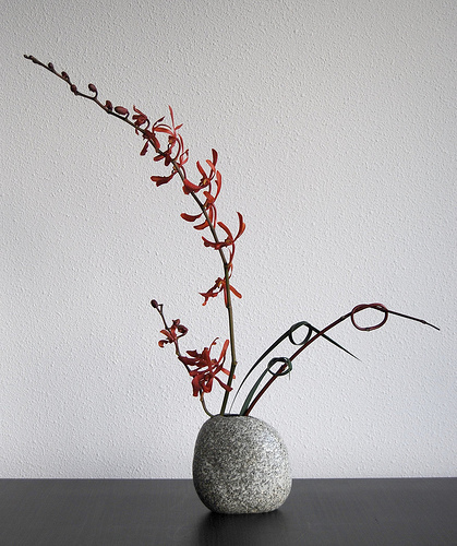 Ikebana